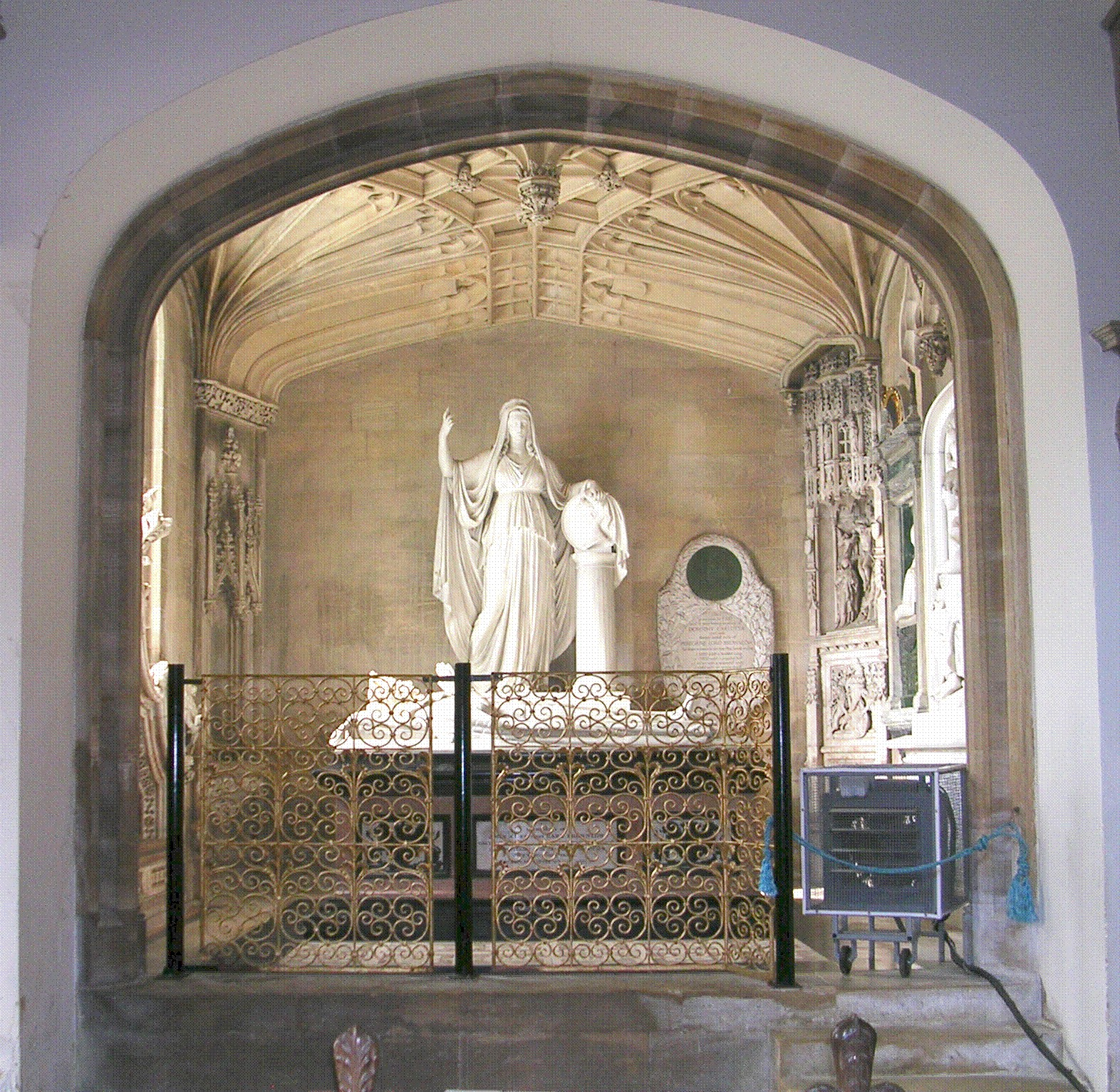 Interior of Belton Church, Lincolnshire, England.